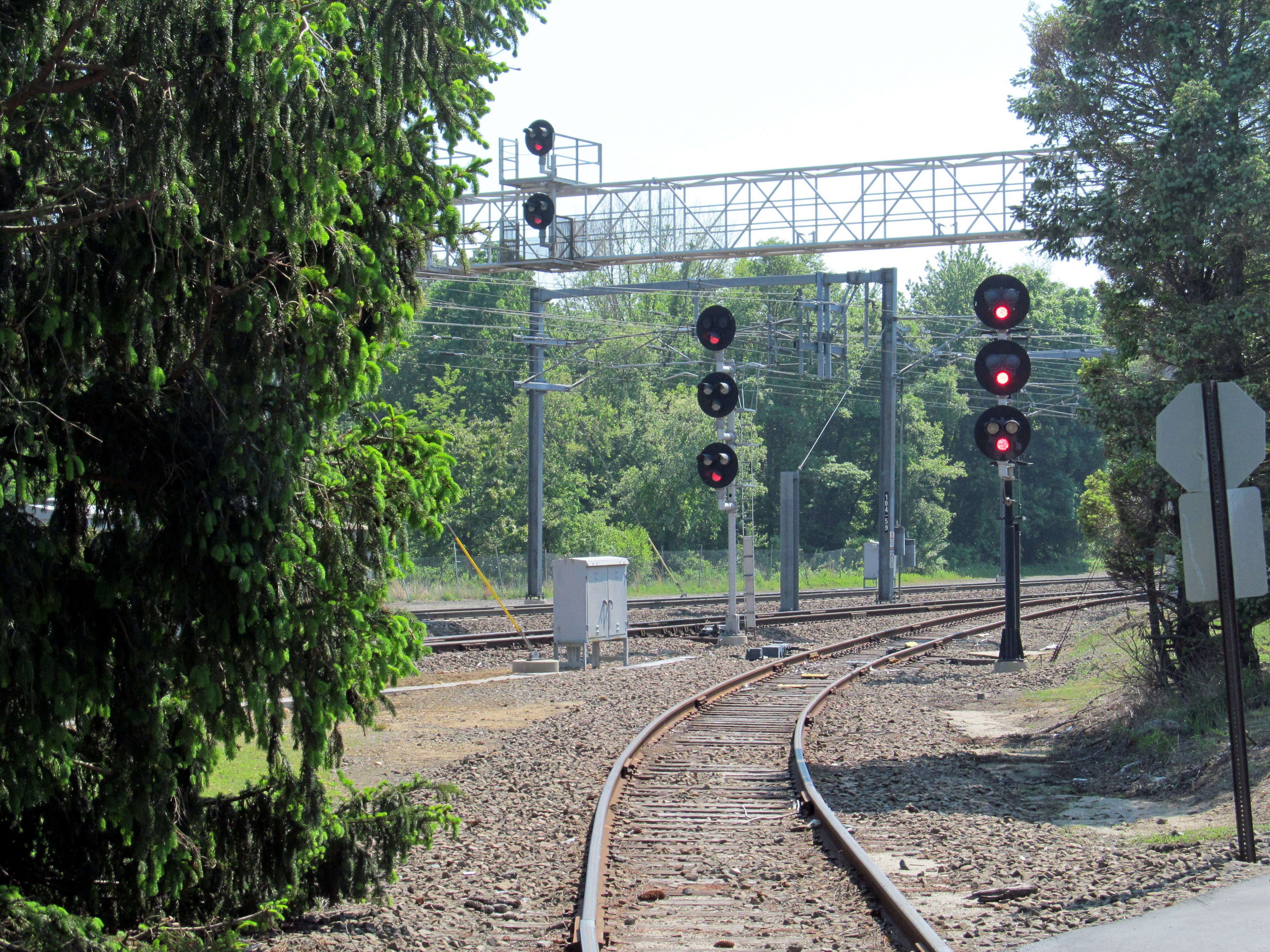 Valley Railroad wye with the Northeast Corridor at Old Saybrook in May 2013